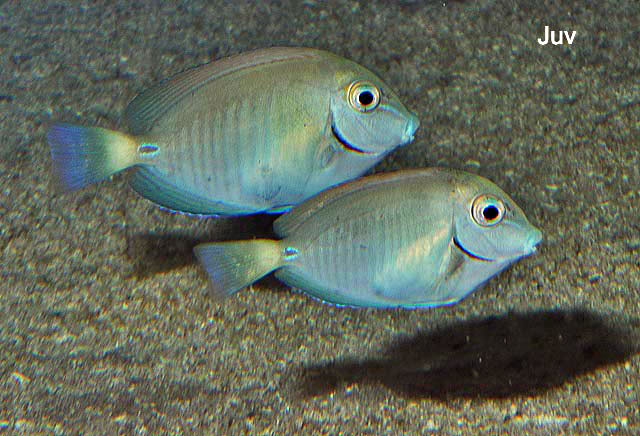 Acanthurus chirurgus